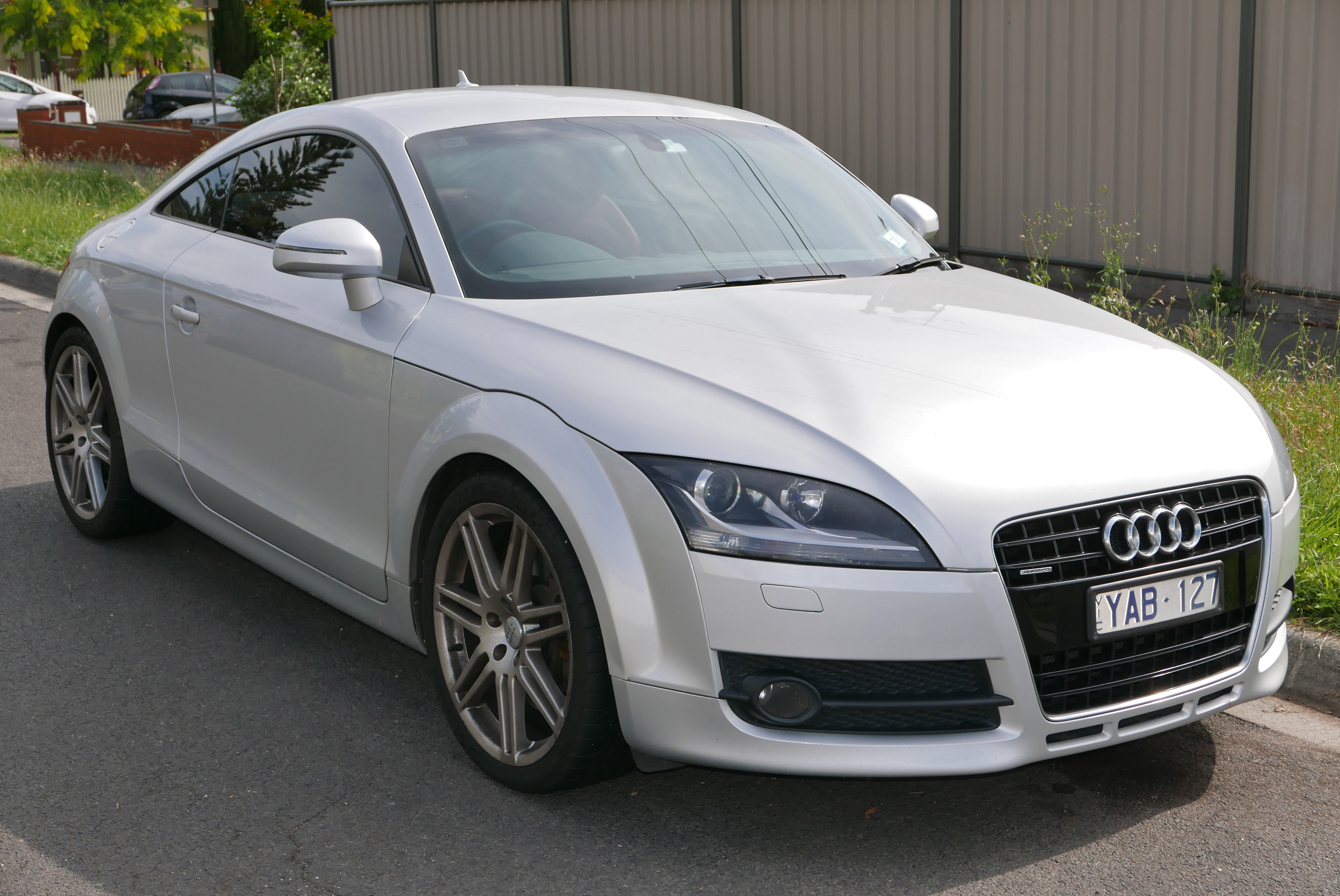 2007 Audi TT (8J) 3.2 quattro coupe. Photographed in Ascot Vale, Victoria, Australia. Vehicle registration enquiry results Jurisdiction Victoria Registration YAB127 Chassis code TRUZZZ8J881024377 Engine code BUB043982 Compliance date 2007-12 Year of manufacture 2007